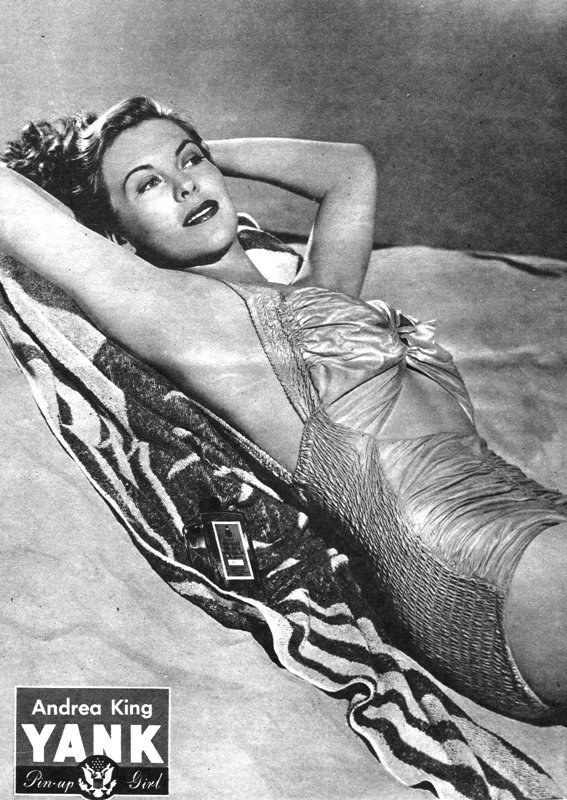 Pin-up photo of Andrea King for the Aug. 10, 1945 issue of Yank, the Army Weekly, a weekly U.S. Army magazine fully staffed by enlisted men.